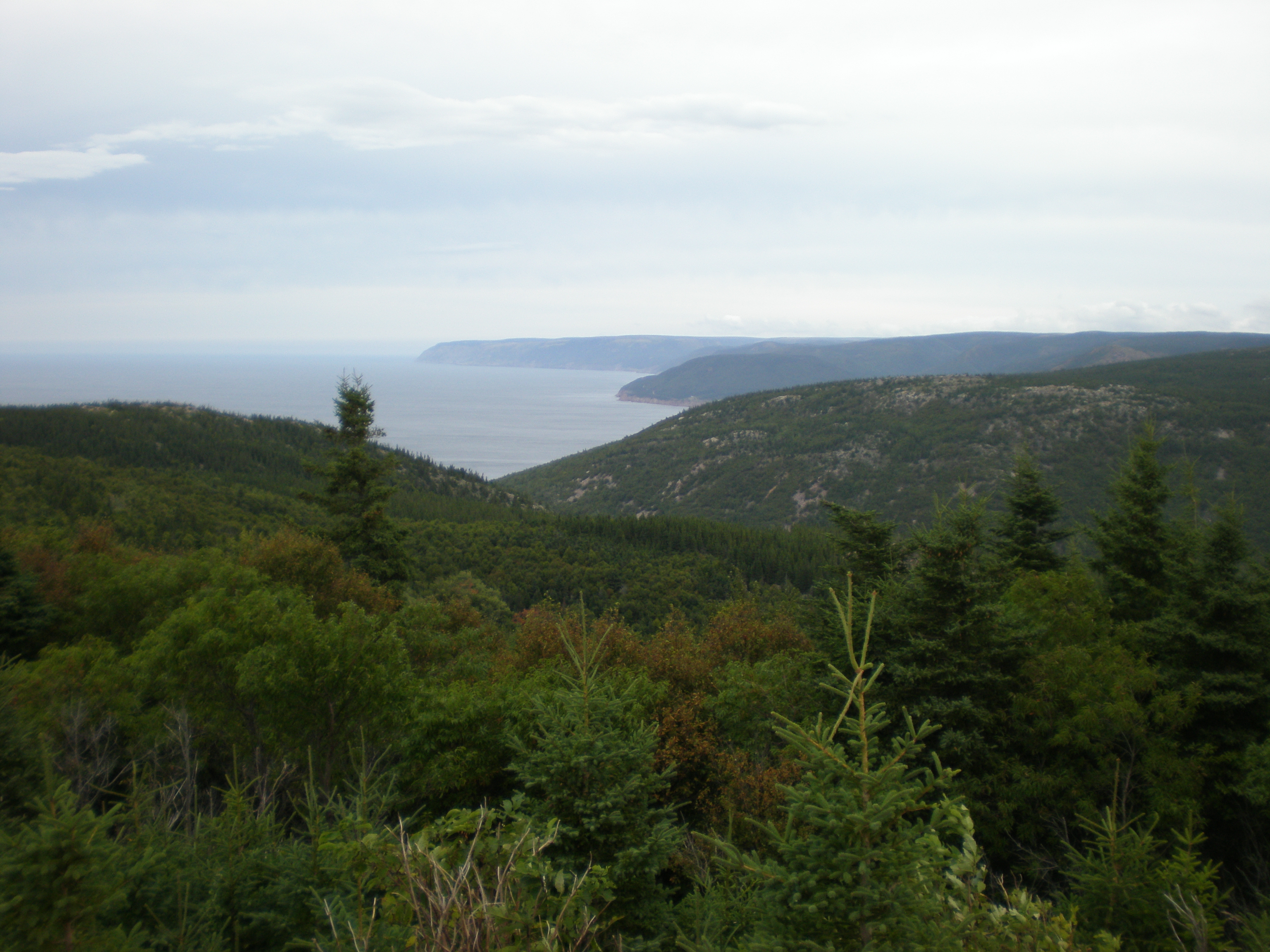 Cabot Trail, Cape Breton, Canada.